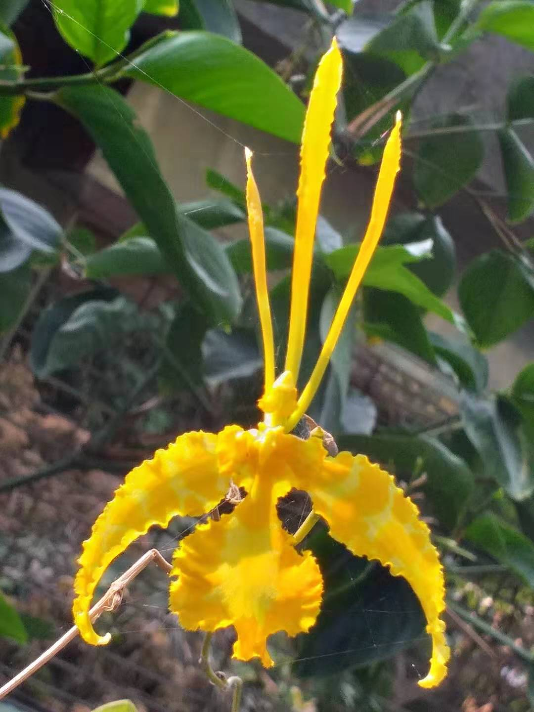 Psychopsis Kalihi. Botanical Garden of National Museum of Natural Science, Taichung, Taiwan.